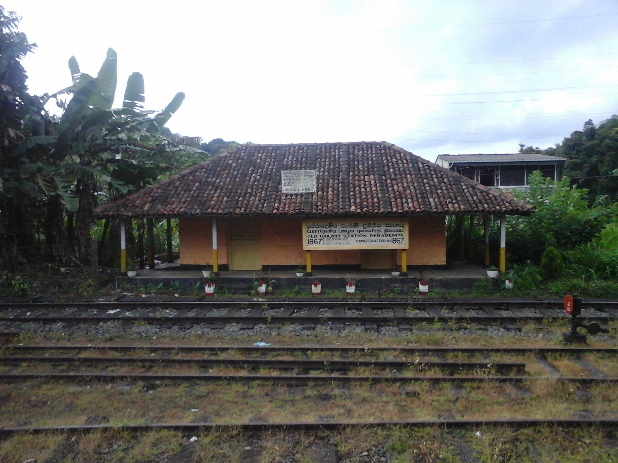 Peradeniya old railway station